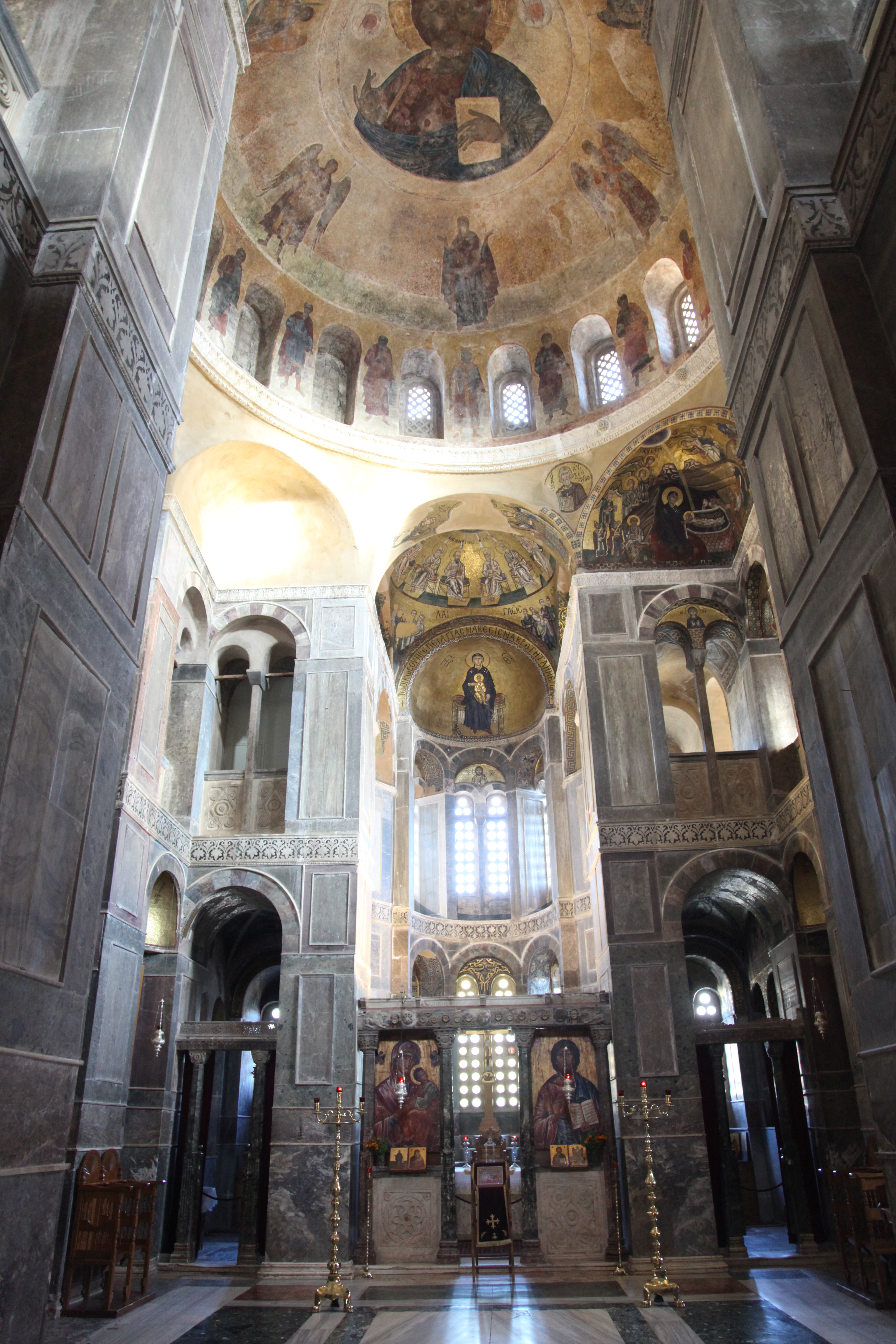 Monastery of Hosios Loukas